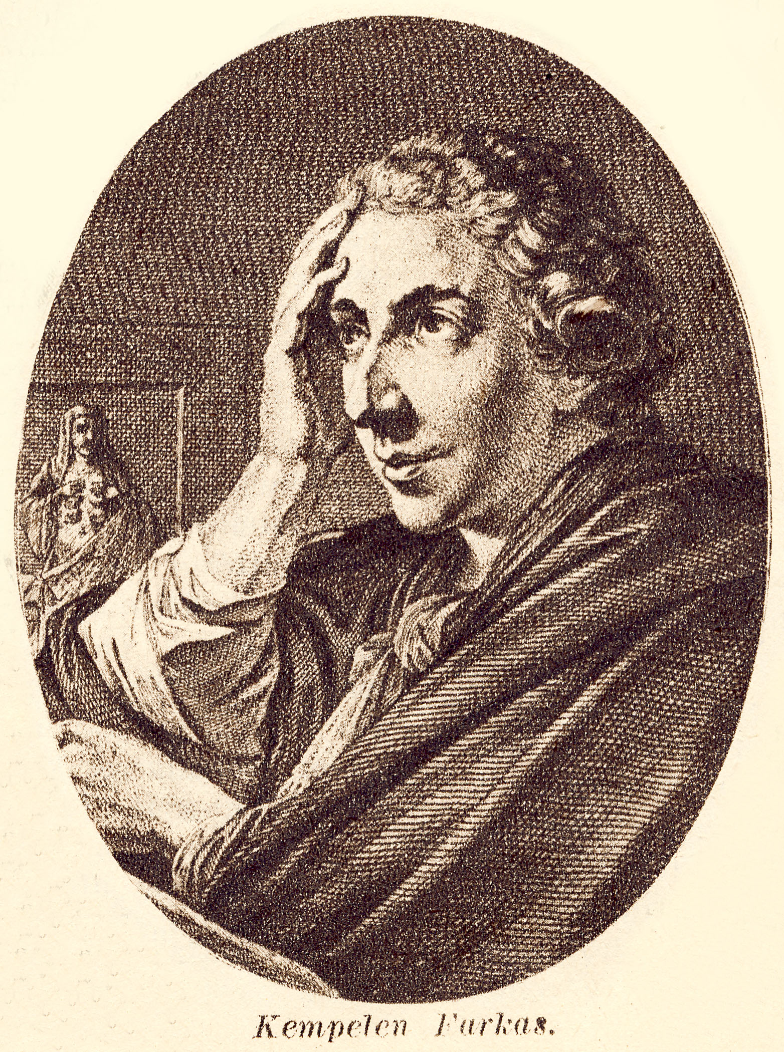 Portrait of Johann Wolfgang von Kempelen.